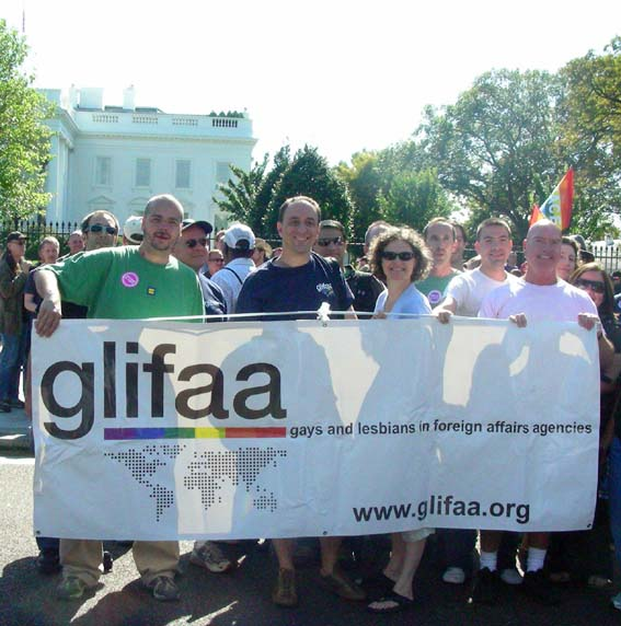 Gays and Lesbians in Foreign Affairs Agencies (GLIFAA) banner at the White House